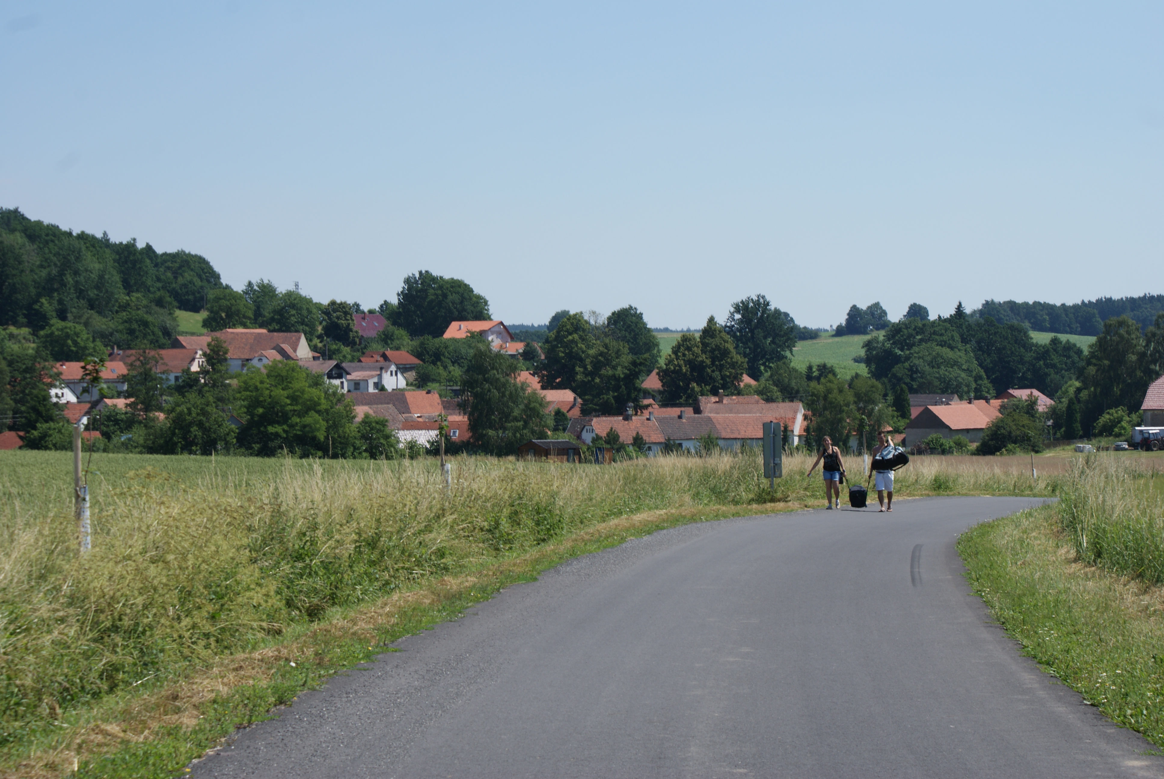 Ostrov, a village in Příbram district, Czech Republic, general view.